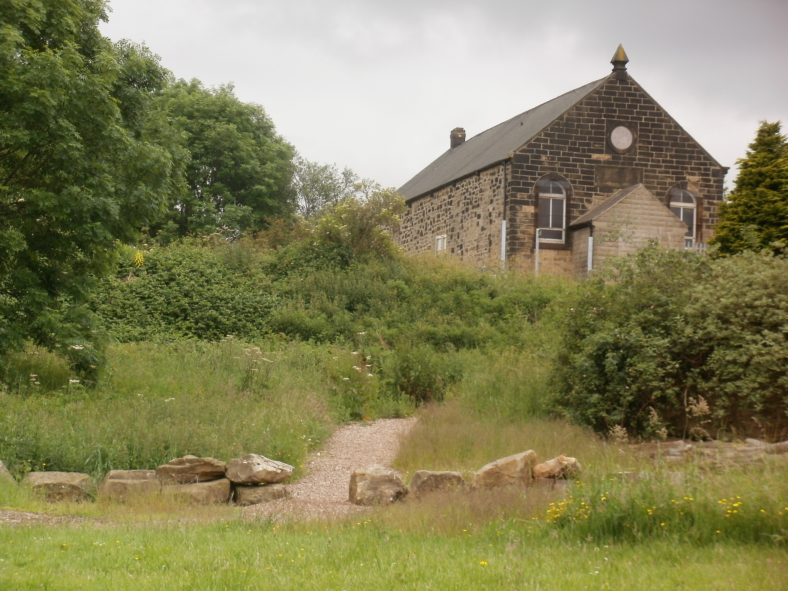 Ebenezer Methodist New Connection Chapel, Windy Nook, Gateshead, Tyne and Wear. Built of local sandstone in 1865. It ceased to be used for worship in 1964.